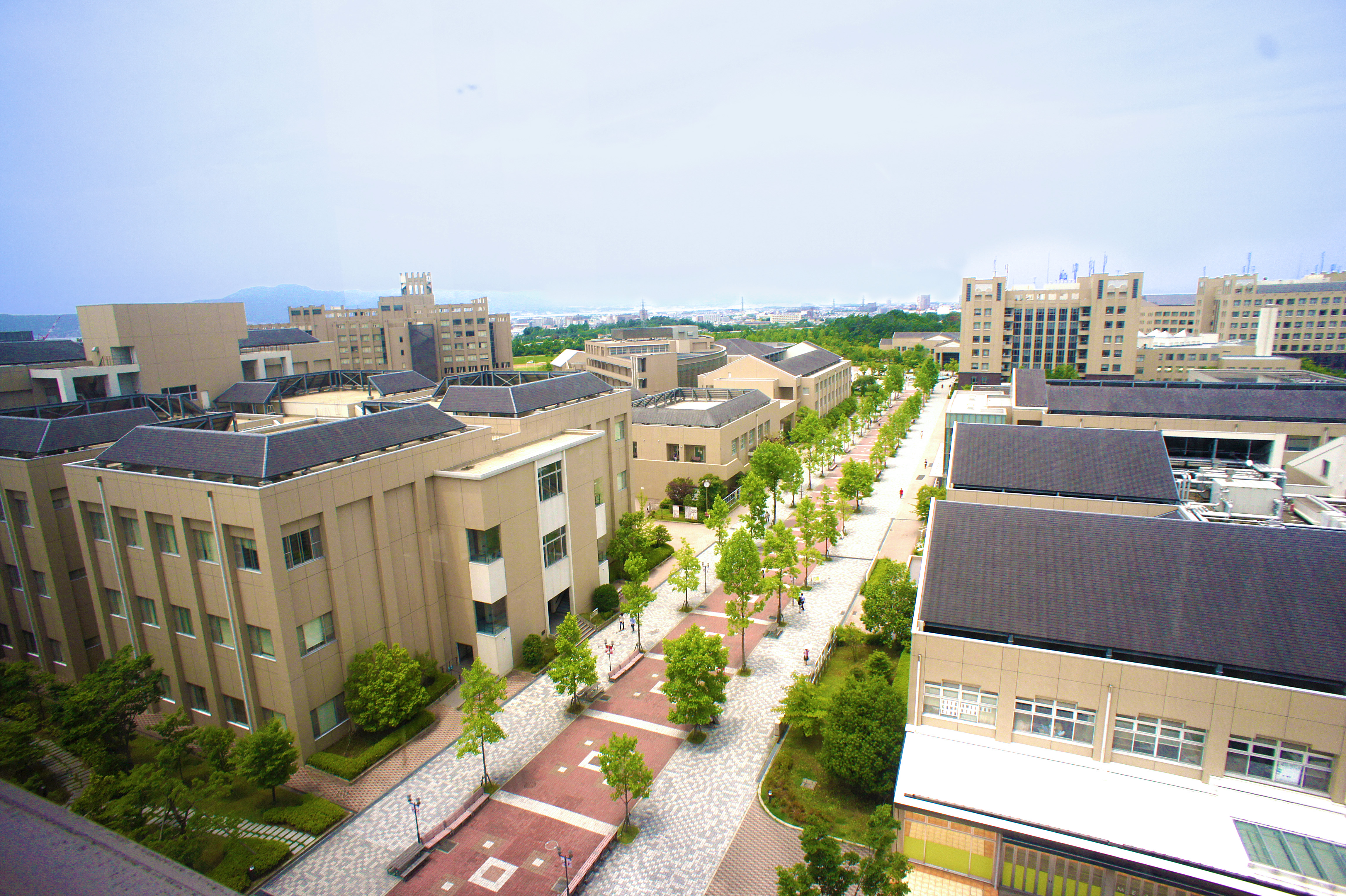 Ritsumekan Biwako-Kusatsu Campus, 1-1-1 Nojihigashi Kusatsu-City Shiga JAPAN.